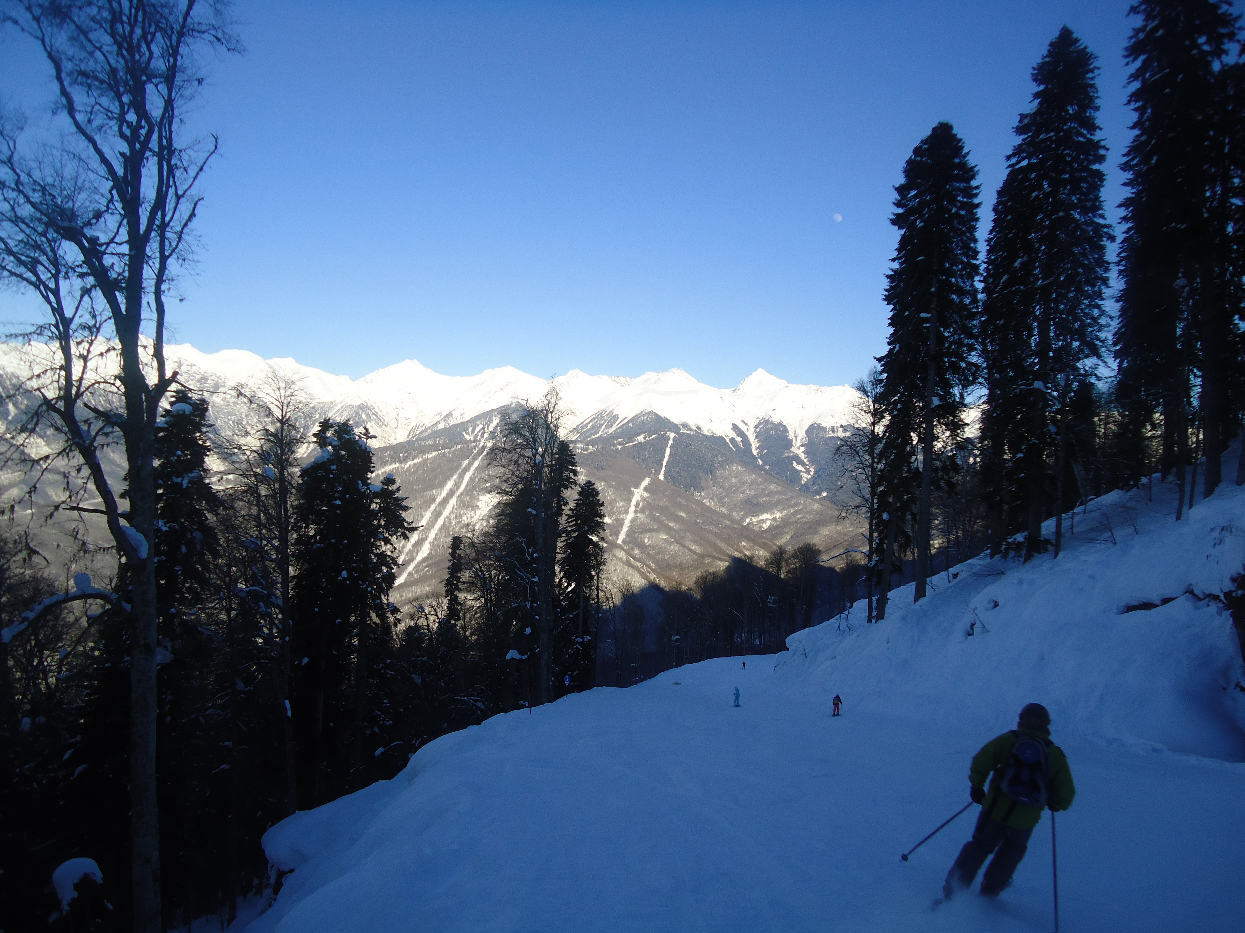 Ski resort Gornaya Karusel in Krasnaya Polyana